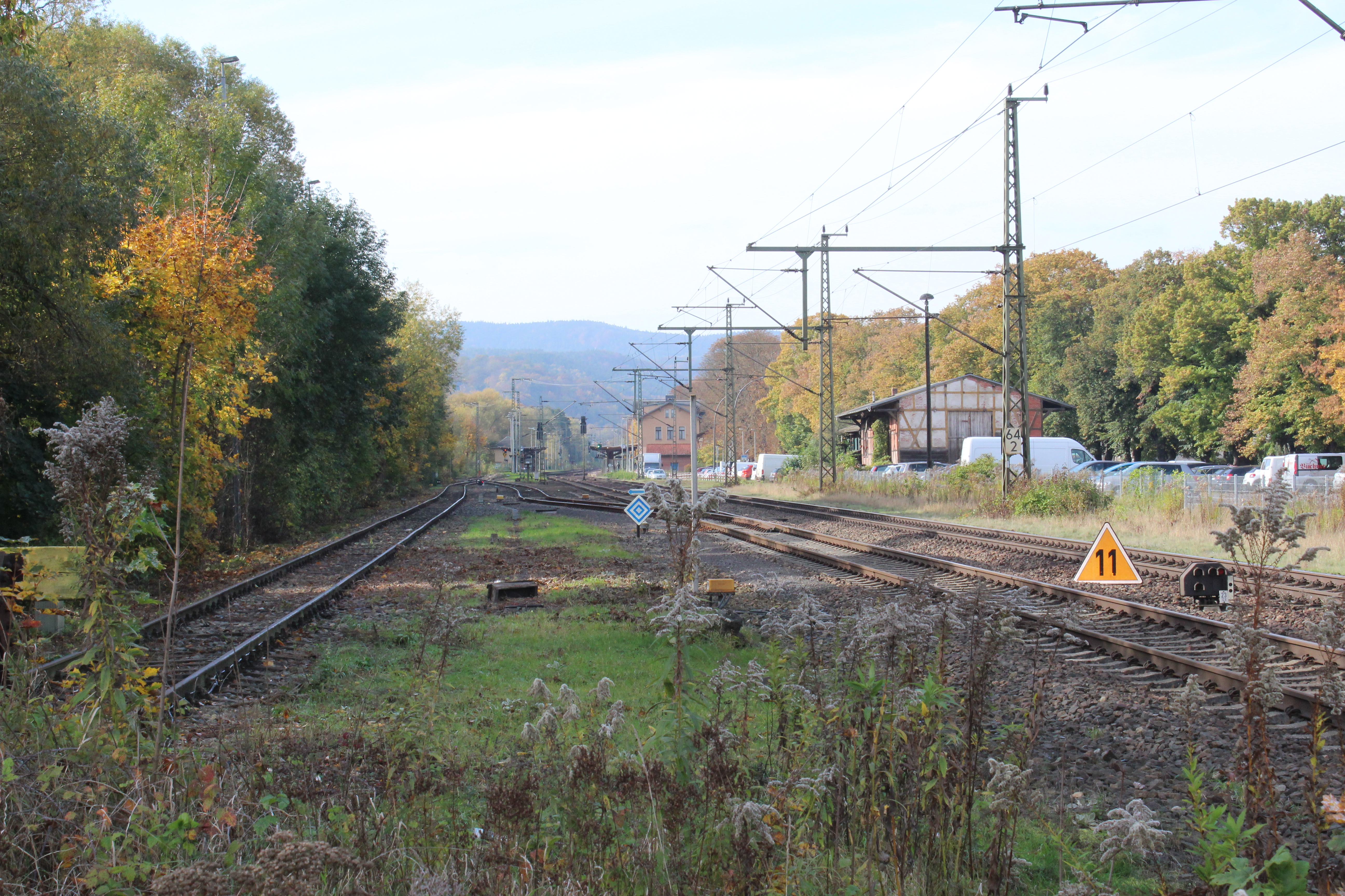 train station Rudolstadt